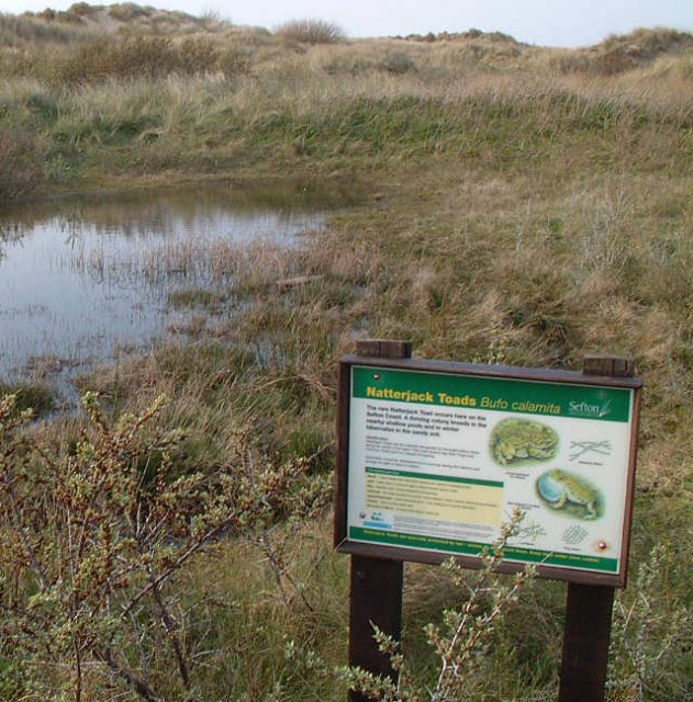 Natterjack Toads live here! A dune slack in Ainsdale Nature Reserve